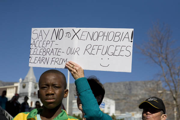 Charlies's Bakery, a highly successful Cape Town based bakery, organised a fan walk to celebrate the 92nd birthday of Nelson Mandela, a state hero. The walk was also dedicated to create awareness of xenophobia in the South Africa.